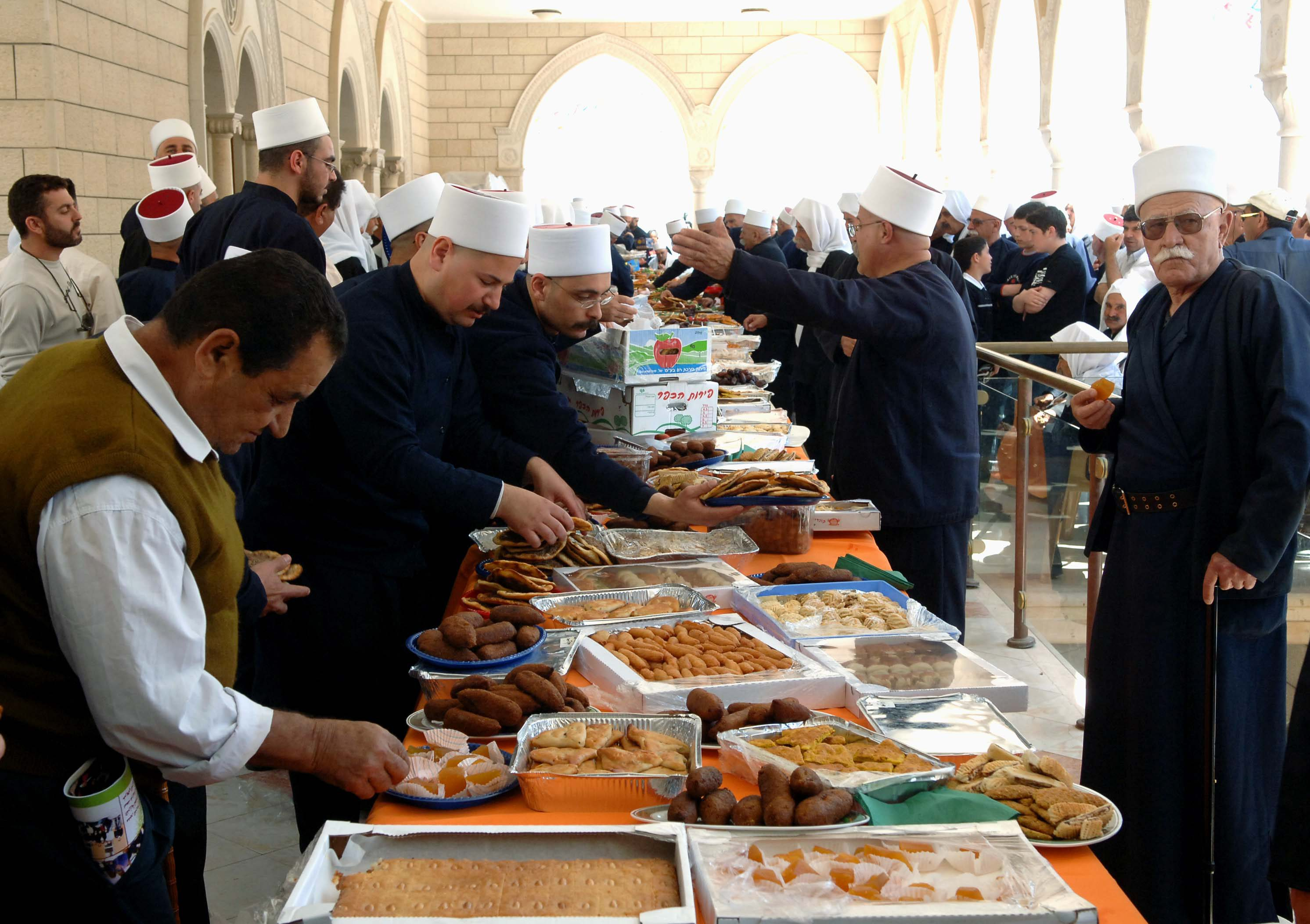 Druze dignitaries celebrating the Nebi Shueib festival at the tomb of the prophet in Hittim. נכבדי קהילת הדרוזים חוגגים את חג נבי שועייב בקרב הנביא בחיטים Photo: Moshe Milner (1946–) Alternative names Miylner, Moše; Milner, Mosheh; Moshé Milner; Milner, M.; Mîlner, Moše; Miylner, MošehDescriptionIsraeli photographerצלם ישראליDate of birth 1946 Location of birth Germany Authority control : Q28750411 VIAF: 100999744 ISNI: 0000 0001 0804 0507 LCCN: n82072104 GND: 115699732 BNF: 15548788n WorldCat creator QS:P170,Q28750411 , 04/25/2005